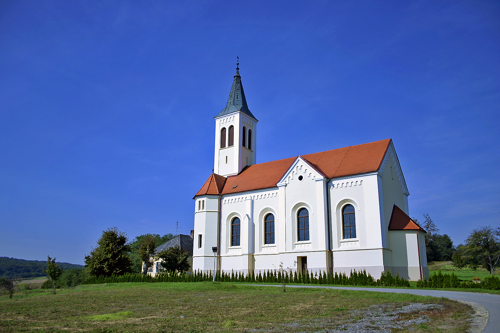 Evangelical church, Domanjševci.